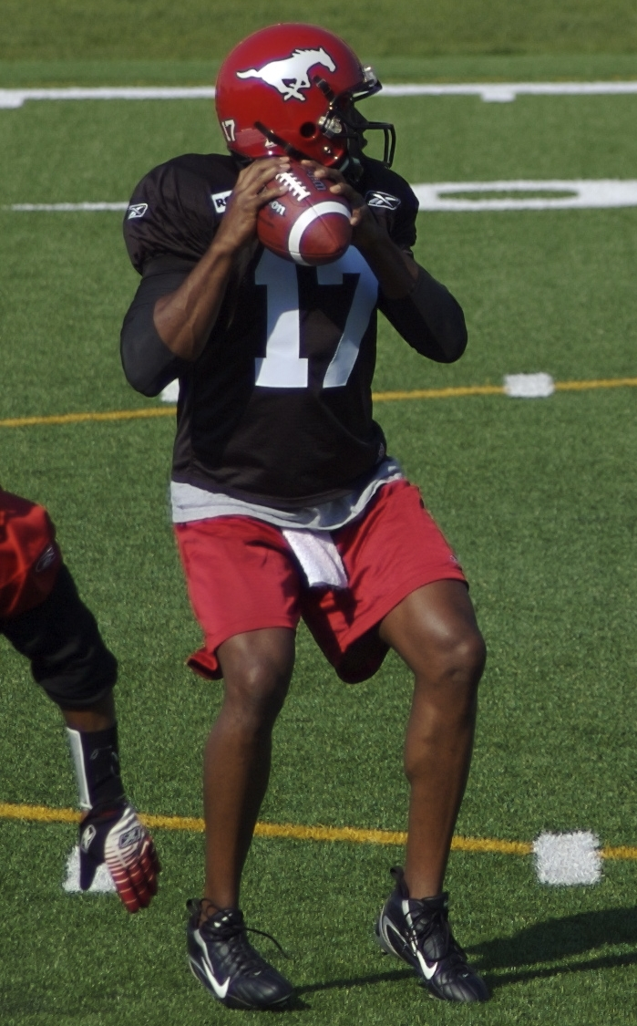 Quarterback Akili Smith at Calgary Stampeders training camp in 2007.